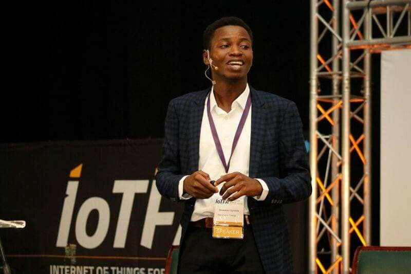 Oluwatobi Oyinlola is speaking at Global IoT conference Africa